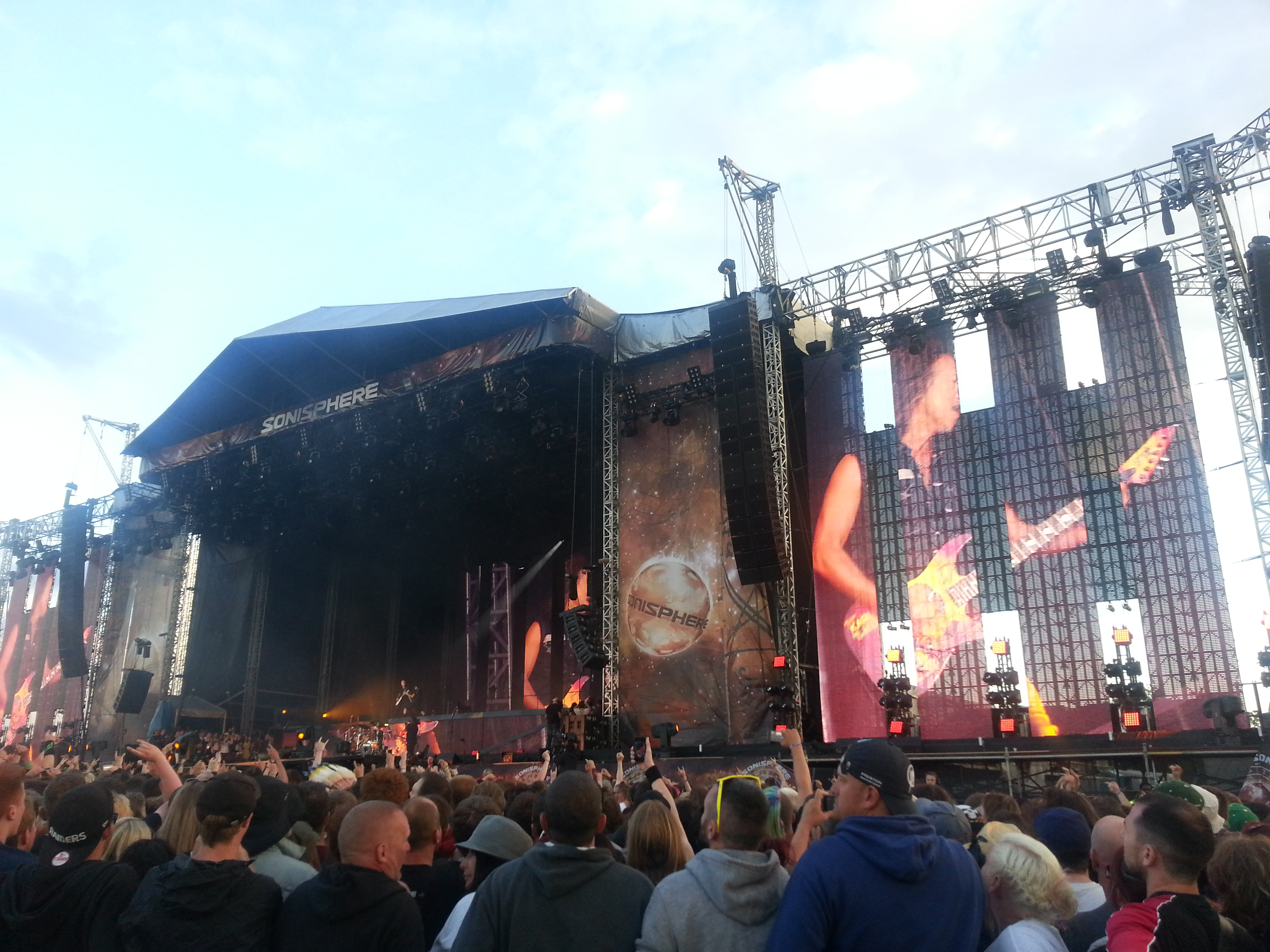 Mettalica Sonisphere 2014 in the United Kingdom